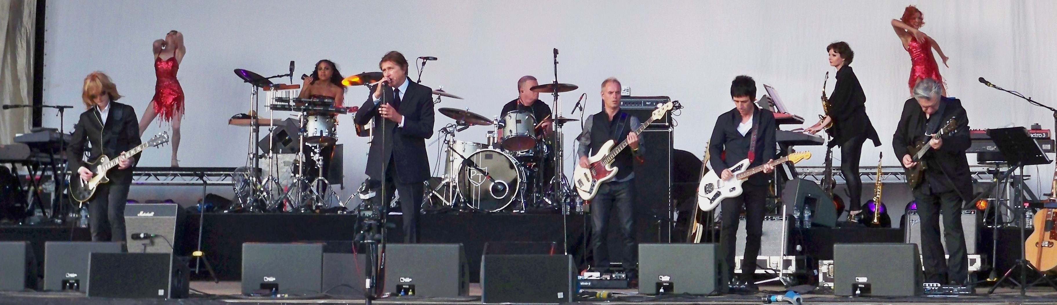 Bryan Ferry onstage at Guilfest 2012, with Johnny Marr and Chris Spedding.